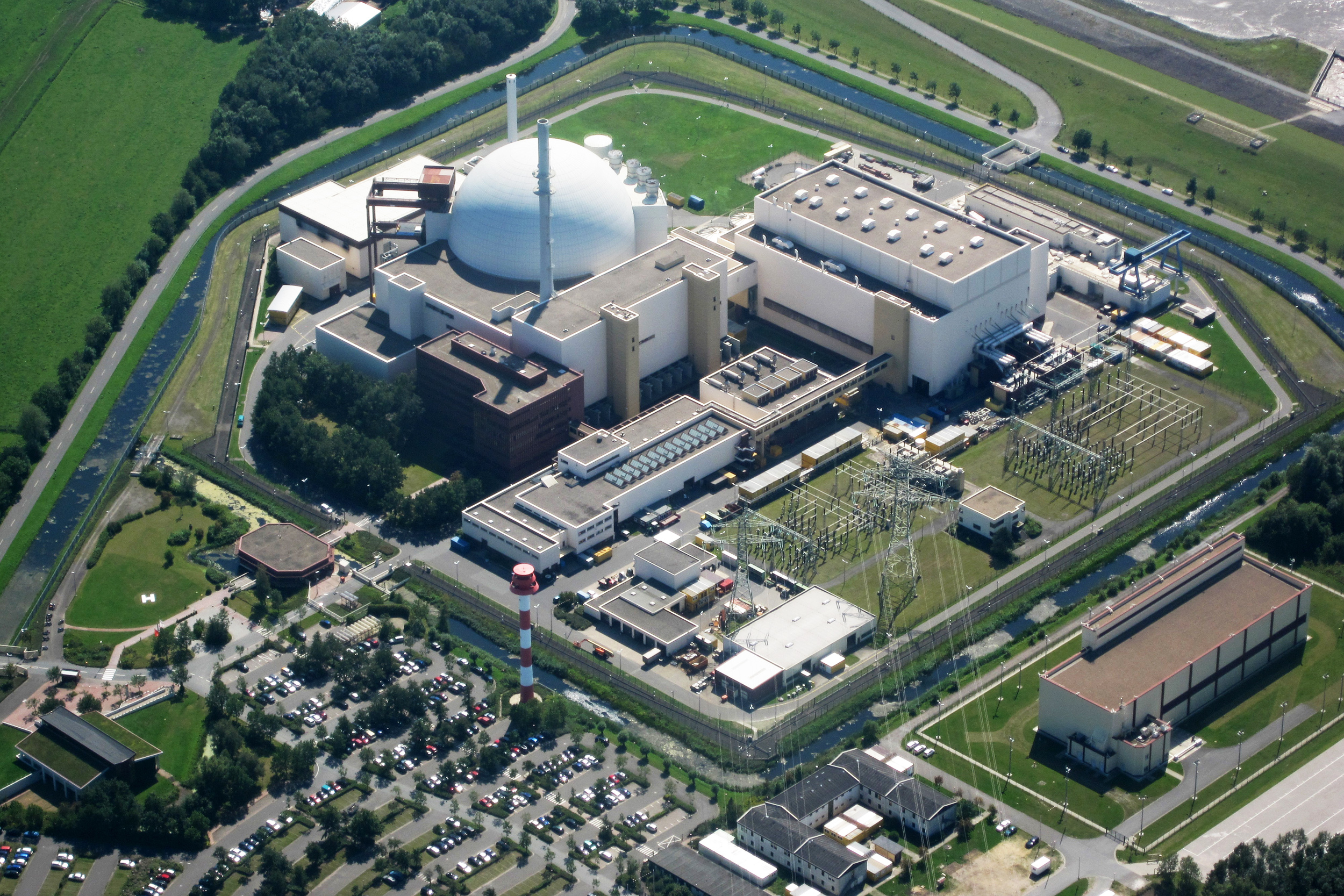 Brokdorf Nuclear Power Plant and substation, aerial photography